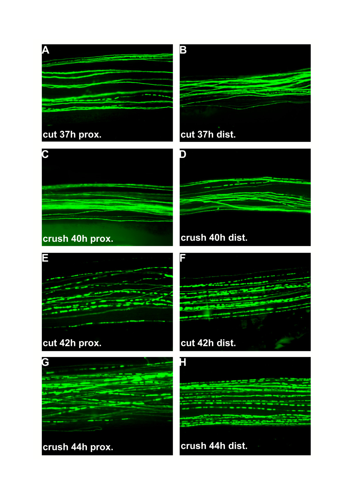 Wallerian degeneration in cut and crushed nerves. caption reads, "After a latency period Wallerian degeneration following cut and crush injury starts abruptly in single axons and involves total fragmentation of axons within few hours A-D: Conventional fluorescence micrographs of a ~2.5 cm long peripheral nerve stump (sciatic-tibial nerve segment) wholemount preparation at the proximal (A) and distal site (B) 37 h after cut injury with few individual fluorescent axons broken into fragments. A small number of axons fragmented at the proximal (C) and distal site (D) of a peripheral nerve stump wholemount preparation could also be detected 40 h following crush injury. E-H: Conventional fluorescence micrographs of a ~2.5 cm long peripheral nerve stump (sciatic-tibial nerve segment) wholemount preparation at the proximal (E) and distal site (F) 42 h after cut injury with most YFP labelled axons fragmented. A similar picture with a majority of axons degenerated is evident at the proximal (G) and distal end (H) of a peripheral nerve stump wholemount preparation 44 h after crush injury. YFP fluorescence has been pseudo-coloured green with the applied imaging software (MetaVue, Universal Imaging Corporation). Magnification: 100 ×"